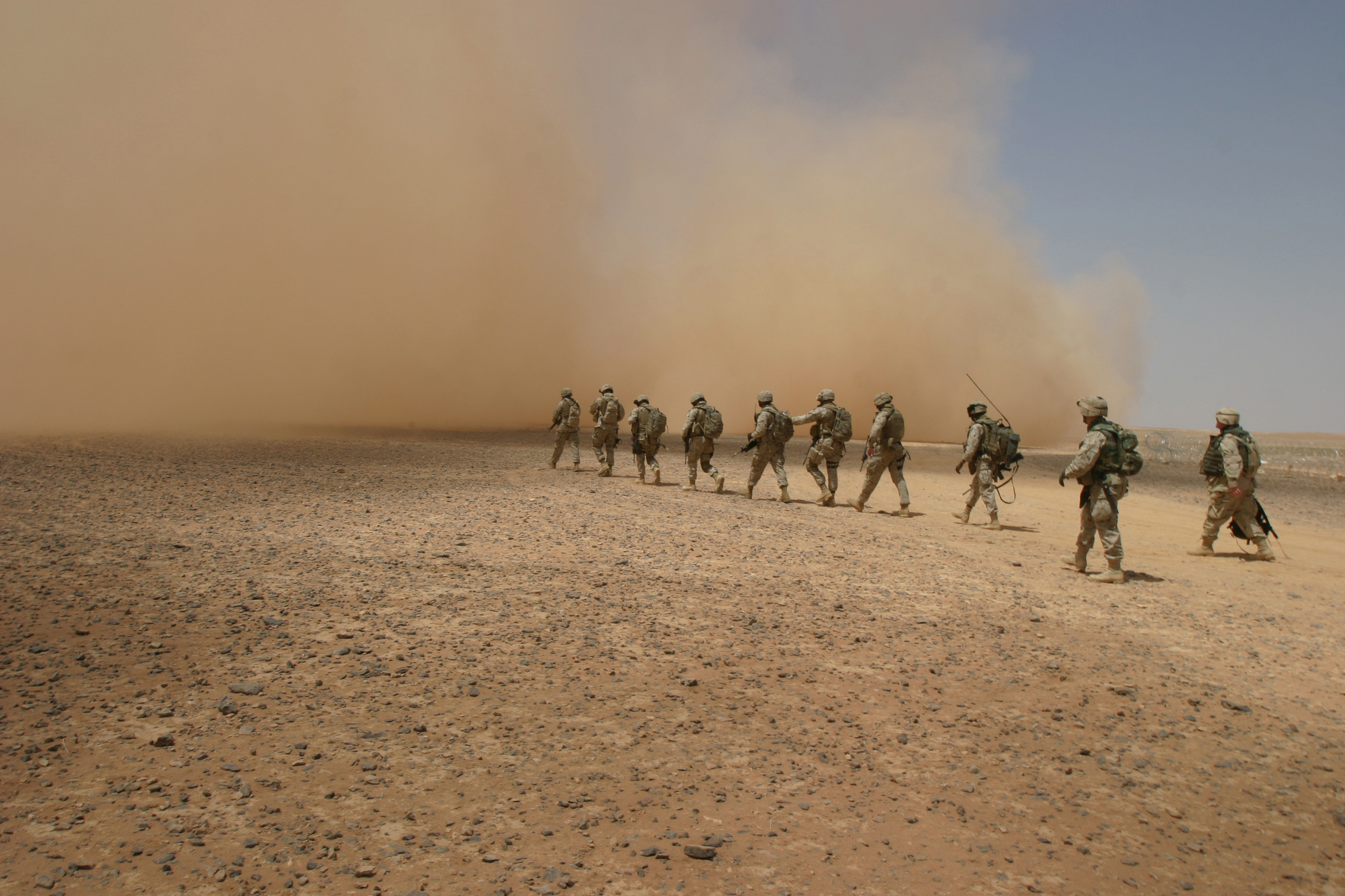 U.S. Marines prepare to leaving a Fort via helicopter. Original caption: 050520-M-3643B-237 Al Anbar, Iraq (May 20, 2005) – U.S. Marines prepare to leave Border Fort 12 via helicopter. The Marines are conducting counter-insurgency operations with Iraqi Security Forces to isolate and neutralize Ant-Iraqi Forces, to support the continued development of Iraqi Security Forces to isolate and neutralize Anti-Iraqi Forces, to support the continued development of Iraqi Security Forces, and to support the Iraqi reconstruction and democratic elections.